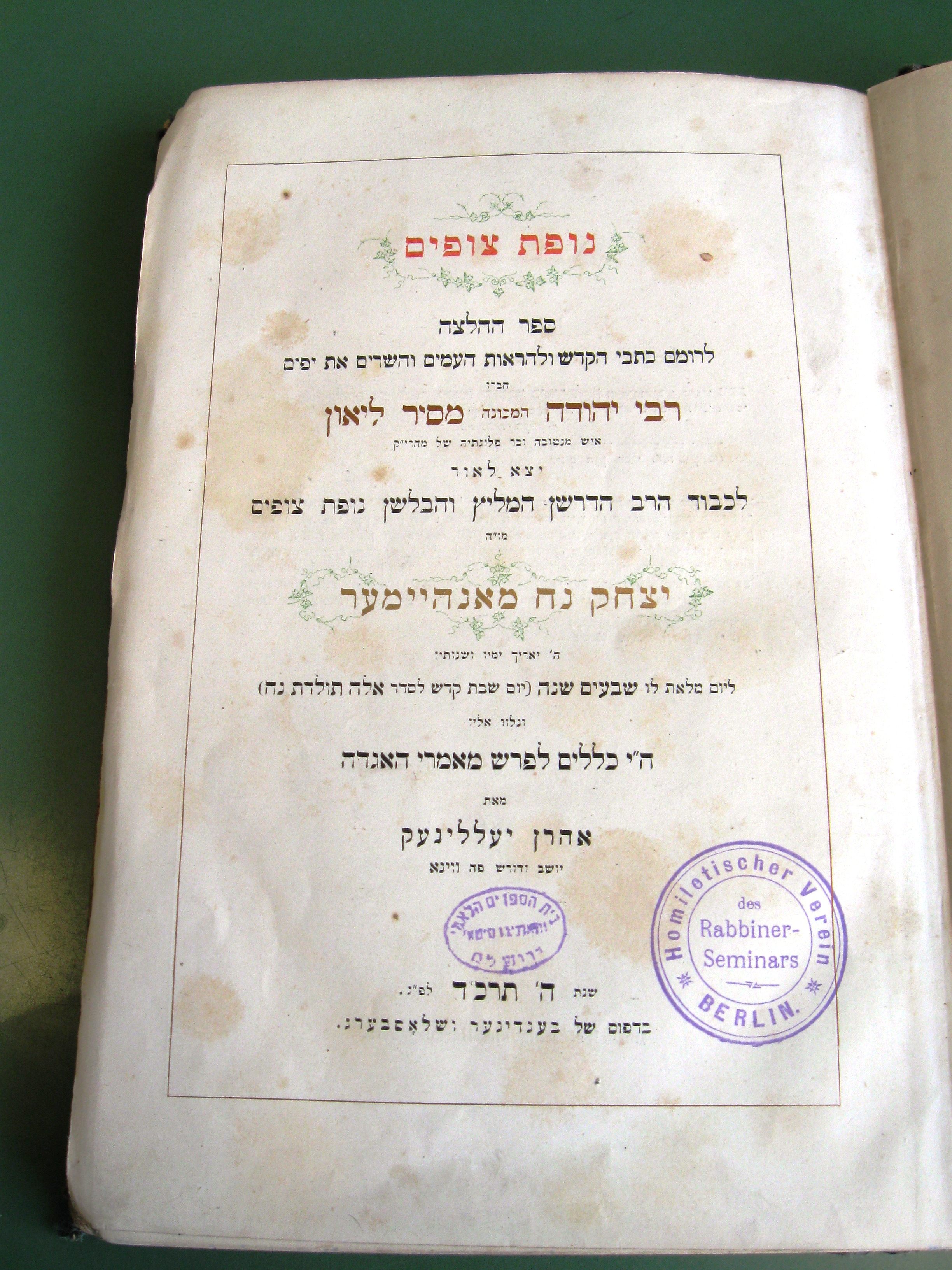 Nofet zufim 1861